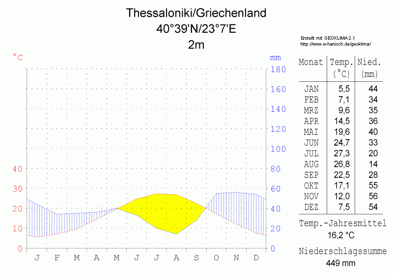 climate chart in the format by Walther and Lieth, metric, °Celsisus and millimeters, made with Geoklima 2.1